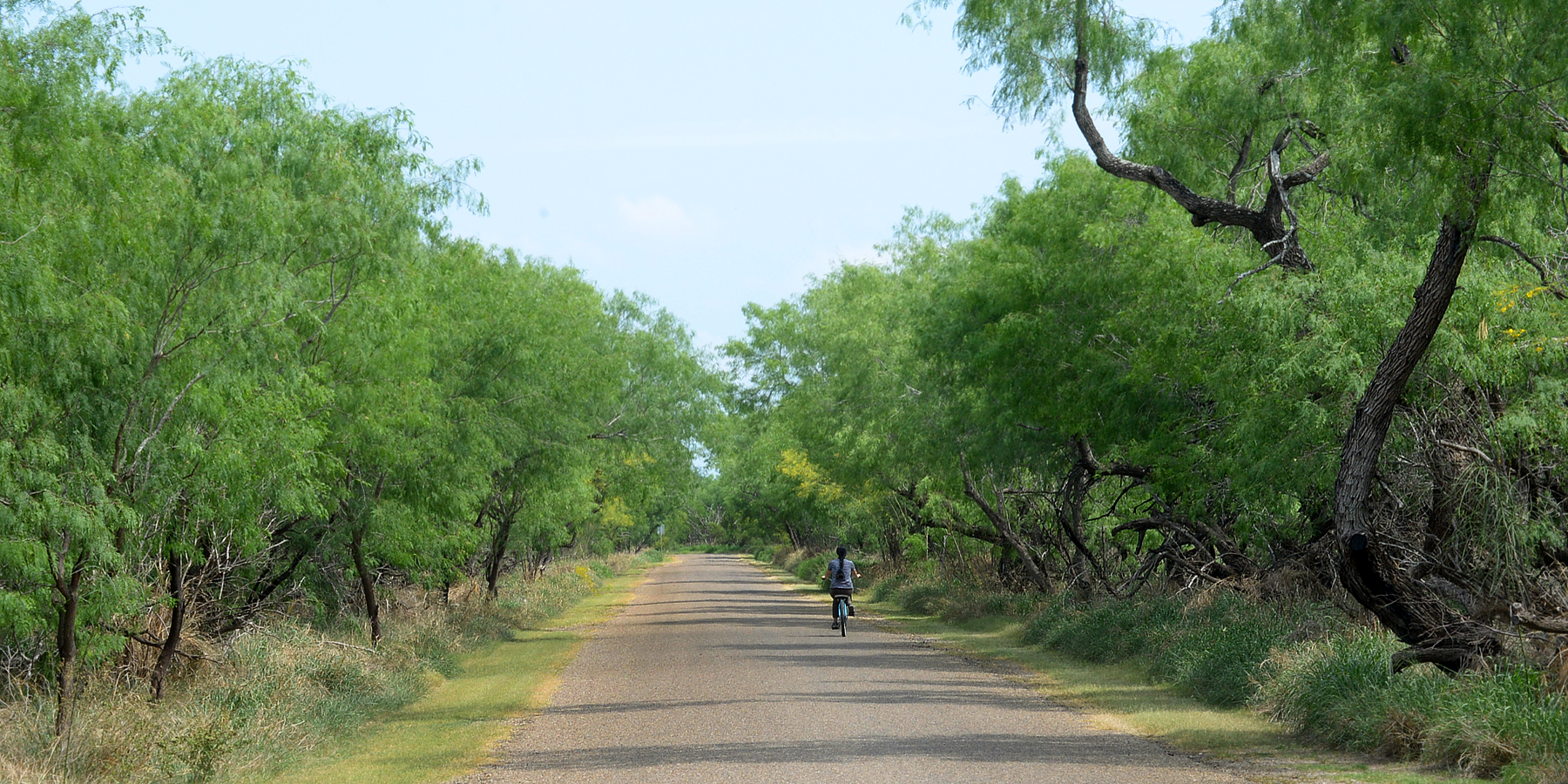 Bentsen-Rio Grande Valley State Park,, Hidalgo County, Texas, USA (26.1700°N, 98.3818°W, 37 m. elev.). Photographed on 15 April 2016 by William L. Farr.